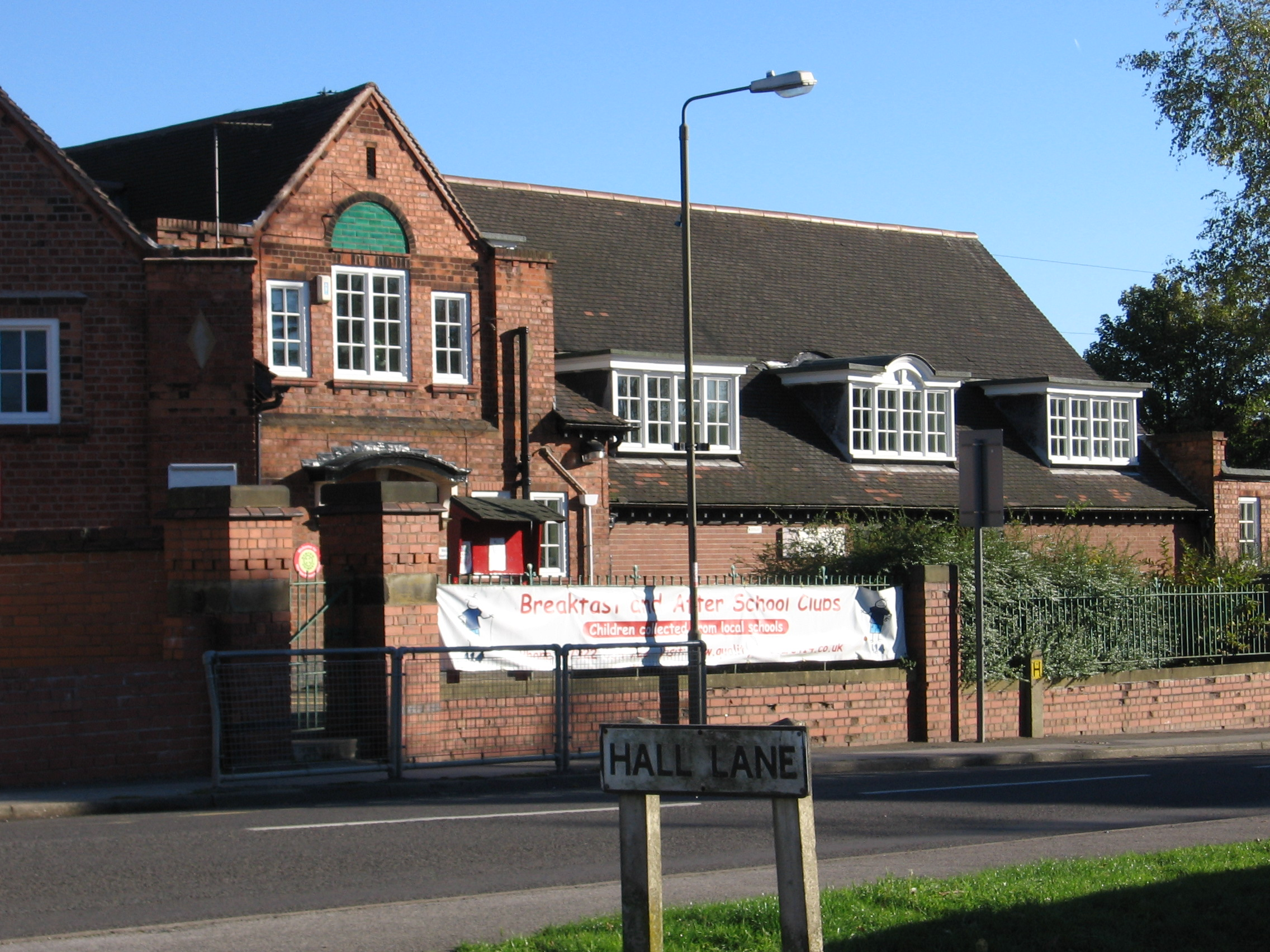 Newton - Primary School